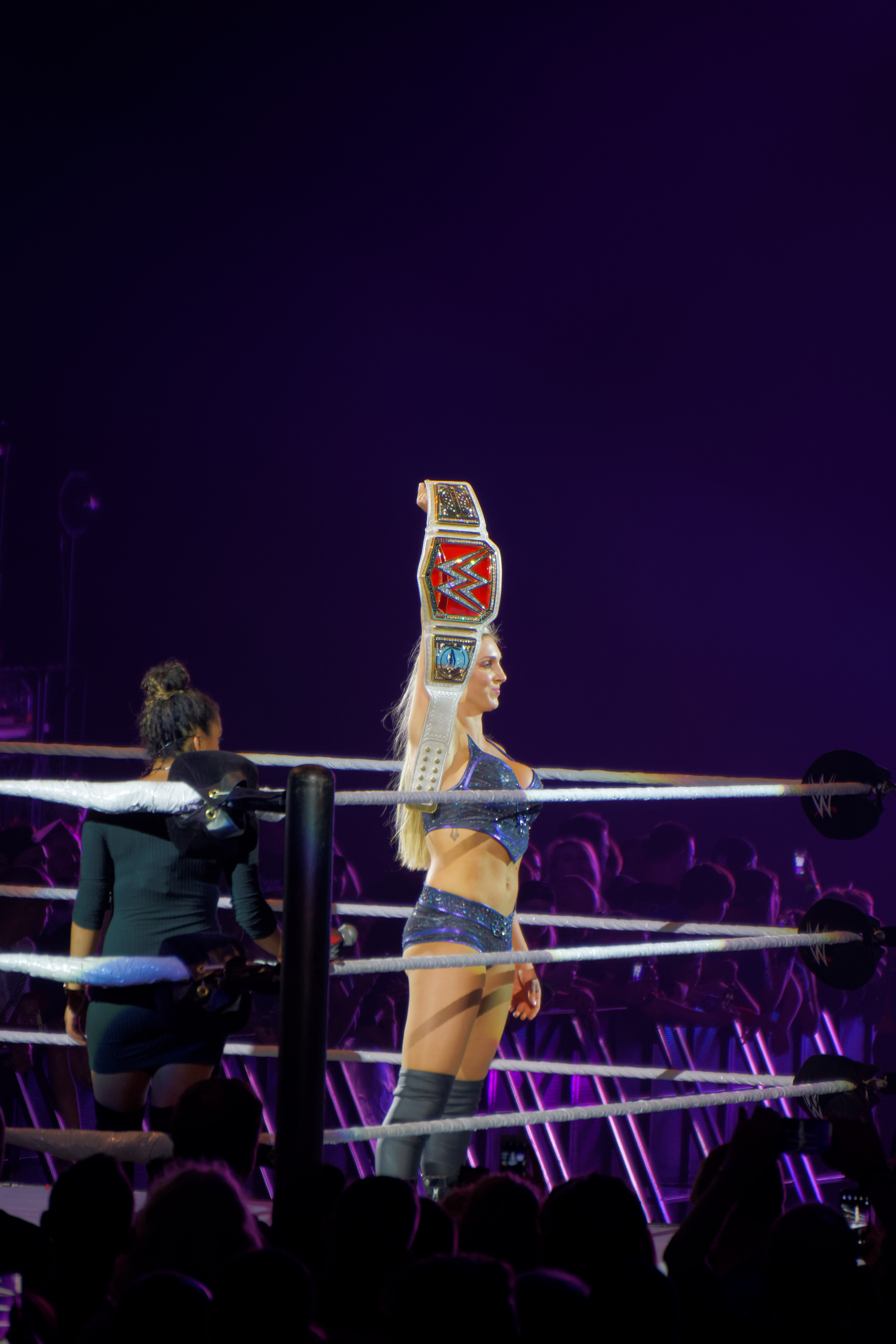 WWE Live returns to London this September Join Roman Reigns, Seth Rollins and more WWE Superstars at the 02 Arena for a one-night-only WWE Live in London on Wednesday, 7 Sept. Charlotte (c) def. (pin) Sasha Banks For : WWE Raw Women's Title